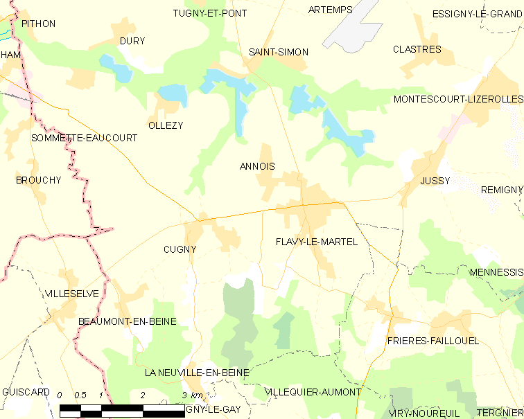 Map of French commune: Annois Map commune FR insee code 02019.png